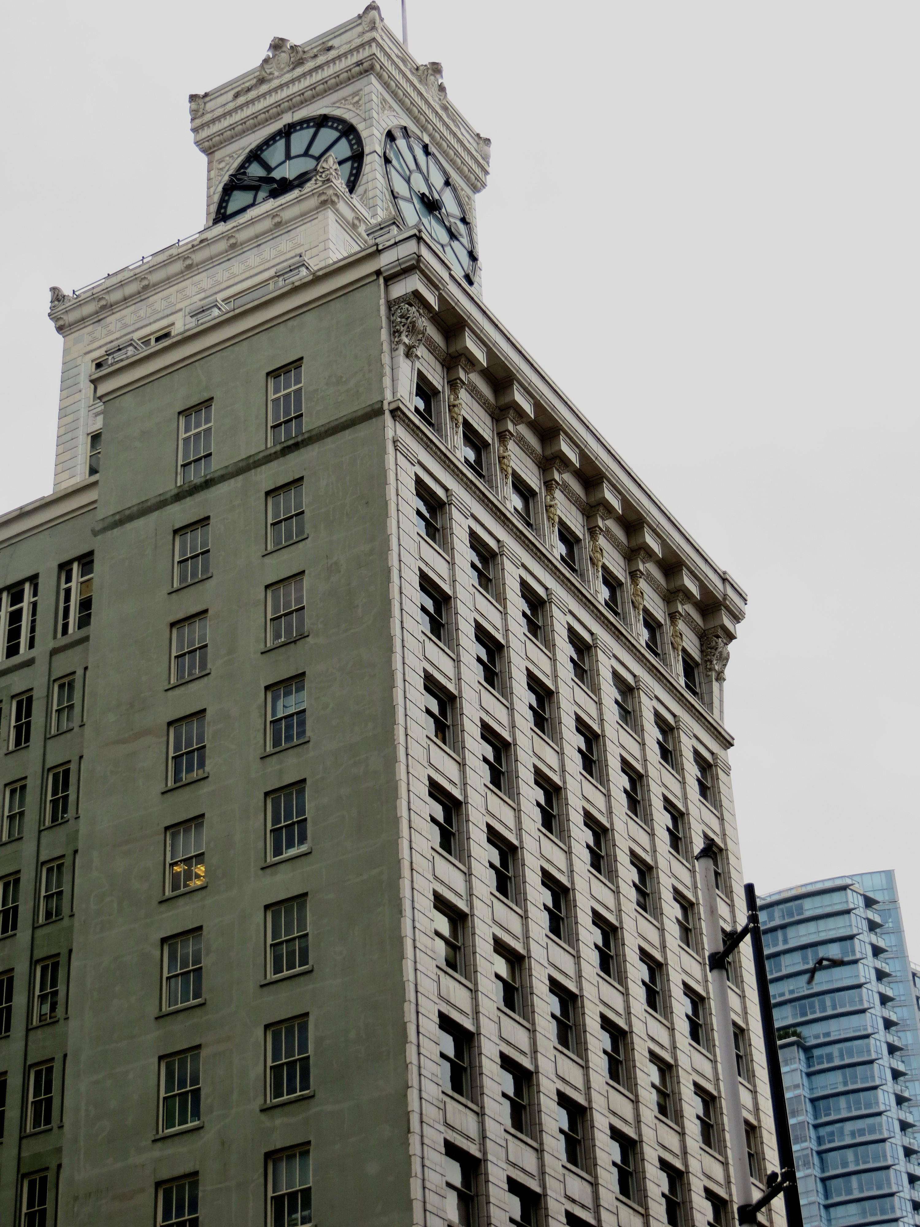 Vancouver Block, 738 Granville St, Vancouver, Kanada